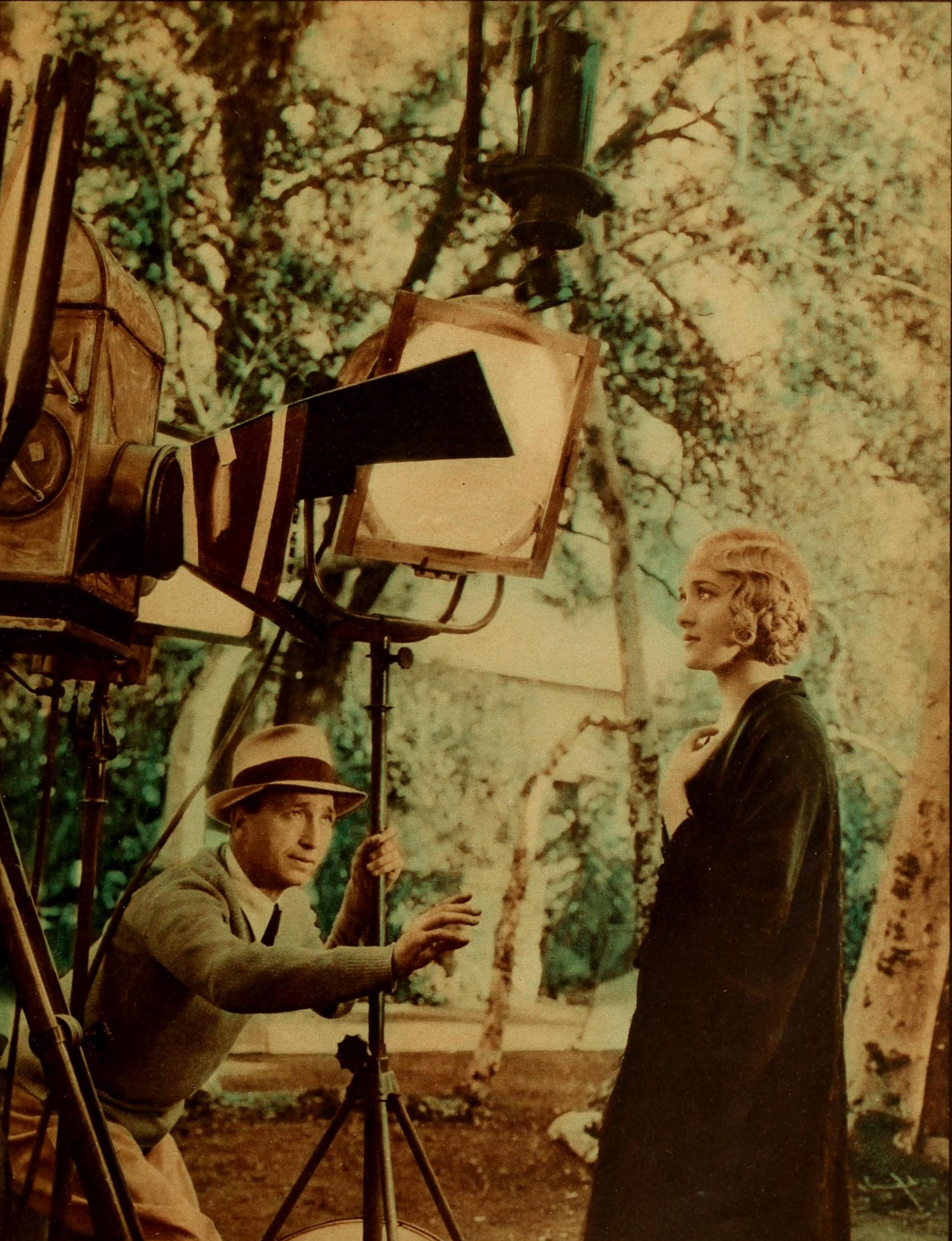 On the set of Alias the Doctor